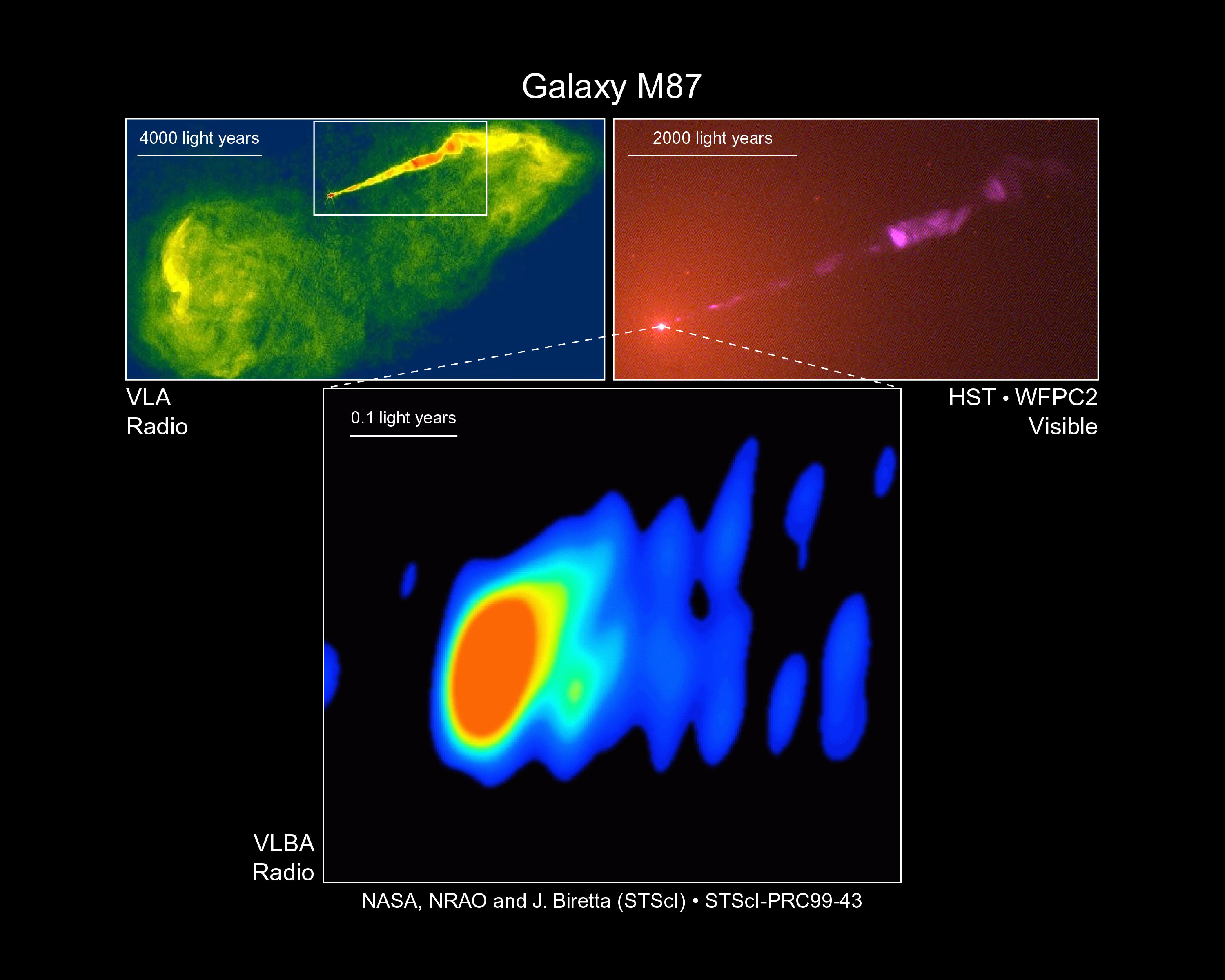 [top left] - This radio image of the galaxy M87, taken with the Very Large Array (VLA) radio telescope in February 1989, shows giant bubble-like structures where radio emission is thought to be powered by the jets of subatomic particles coming from the galaxy's central black hole. The false color corresponds to the intensity of the radio energy being emitted by the jet. M87 is located 50 million light-years away in the constellation Virgo. [top right] - A visible light image of the giant elliptical galaxy M87, taken with NASA Hubble Space Telescope's Wide Field Planetary Camera 2 in February 1998, reveals a brilliant jet of high-speed electrons emitted from the nucleus (diagonal line across image). The jet is produced by a 3-billion-solar-mass black hole. [bottom] - A Very Long Baseline Array (VLBA) radio image of the region close to the black hole, where an extragalactic jet is formed into a narrow beam by magnetic fields. The false color corresponds to the intensity of the radio energy being emitted by the jet. The red region is about 1/10 light-year across. The image was taken in March 1999.